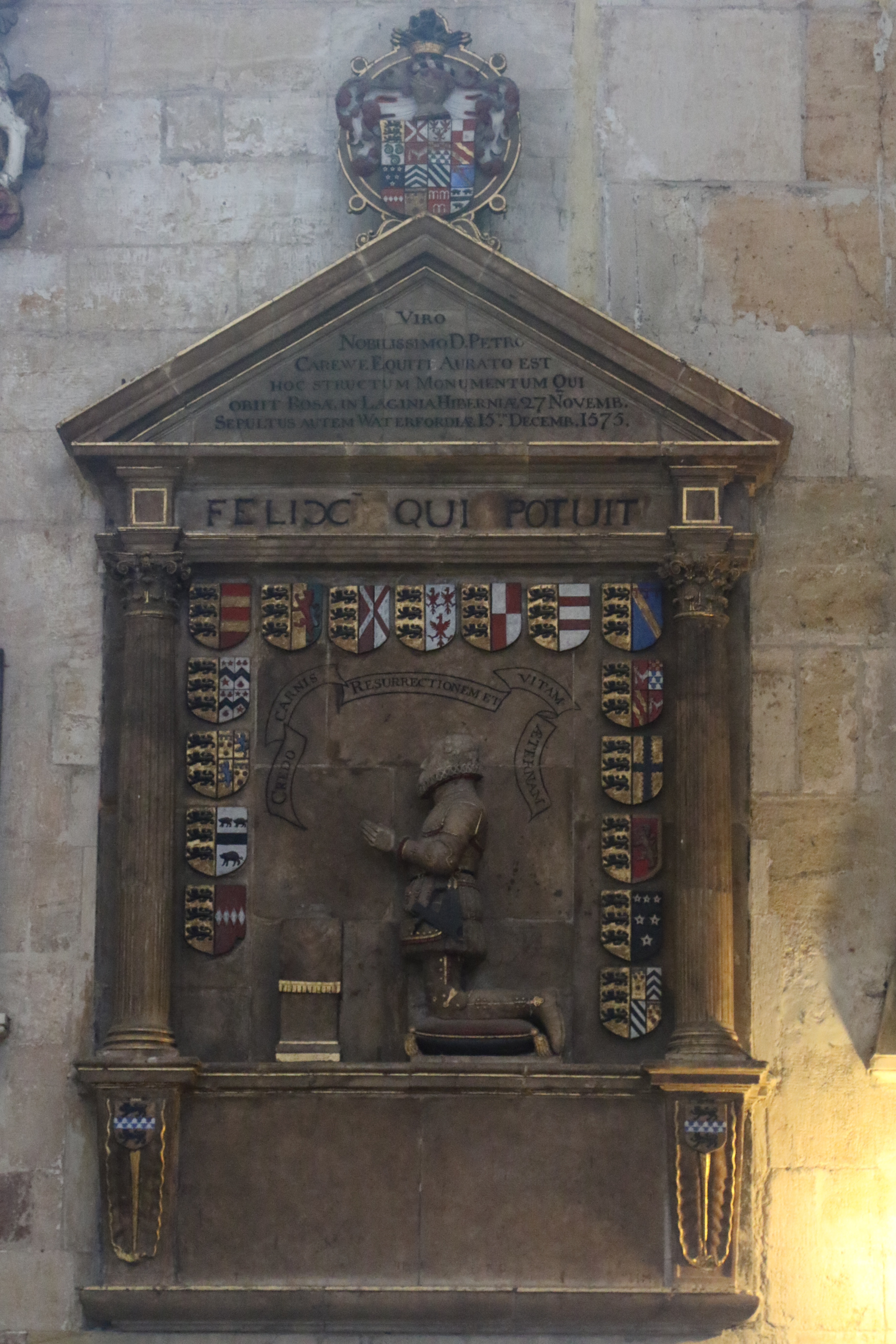 Viro Nobilissimo D. Petro Carewe Equiti Aurato est hoc structum monumentum qui obiit Rosa in Laginia Hibernia 27 Novemb. Sepultus autem Waterfordiae 15 Decemb. 1575